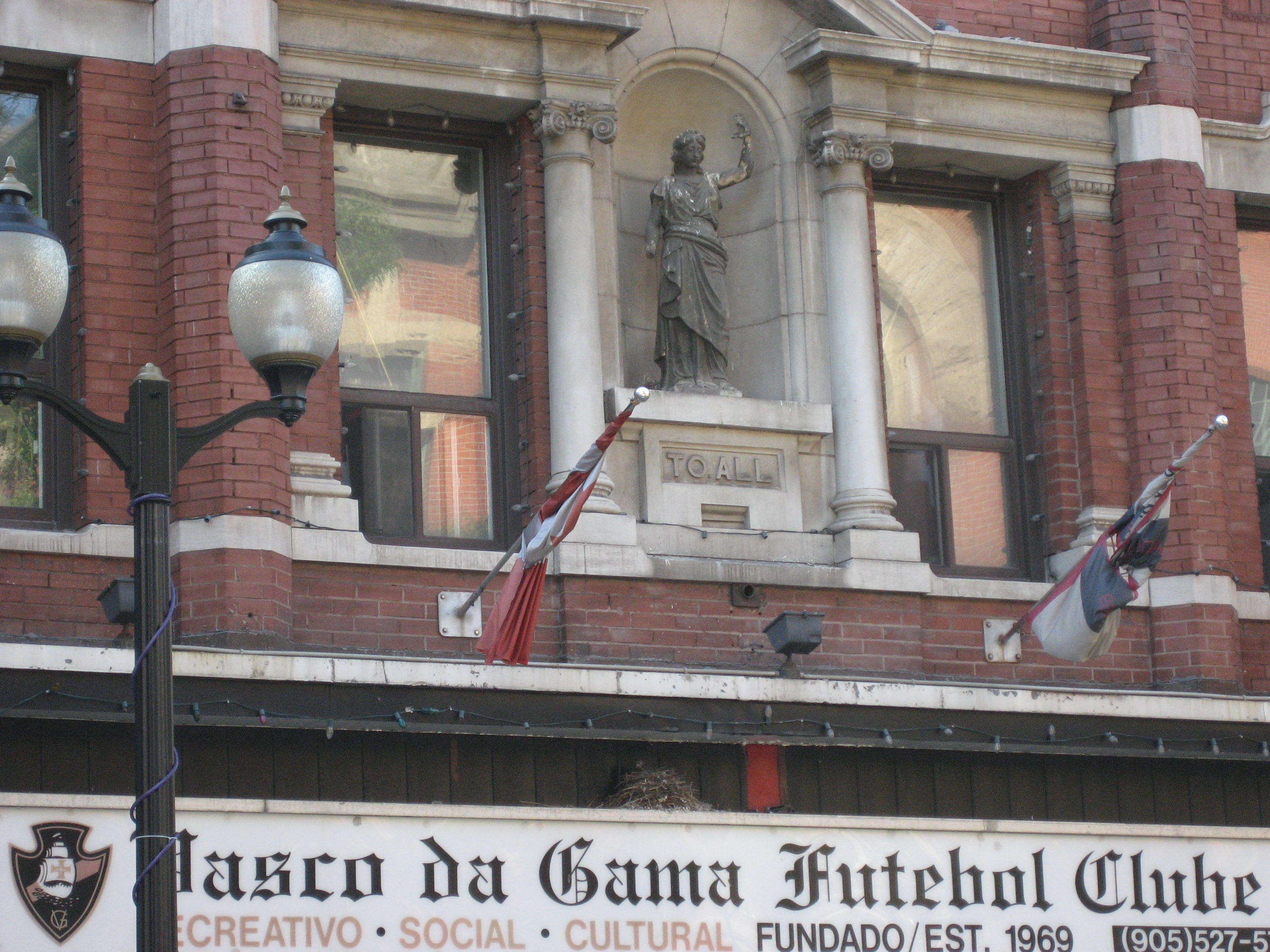 Vasco Da Gama Football Club, downtown Hamilton. Former Orange Lodge for Ontario West.